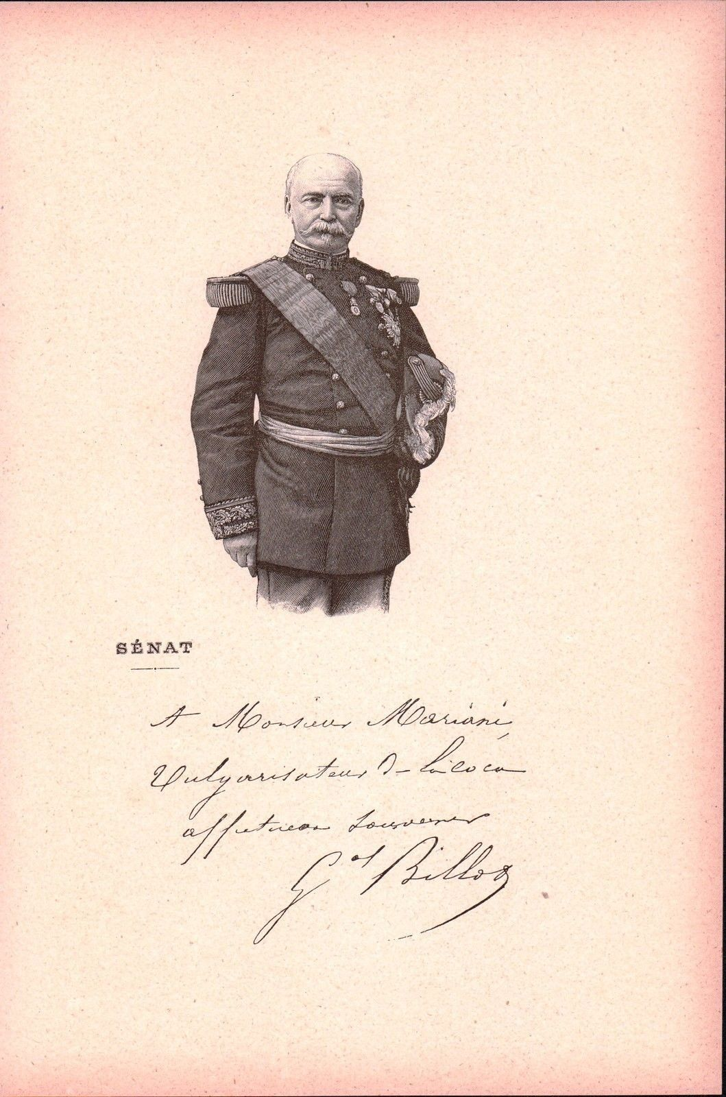 French general and politician Jean-Baptiste Billot (1828-1907)